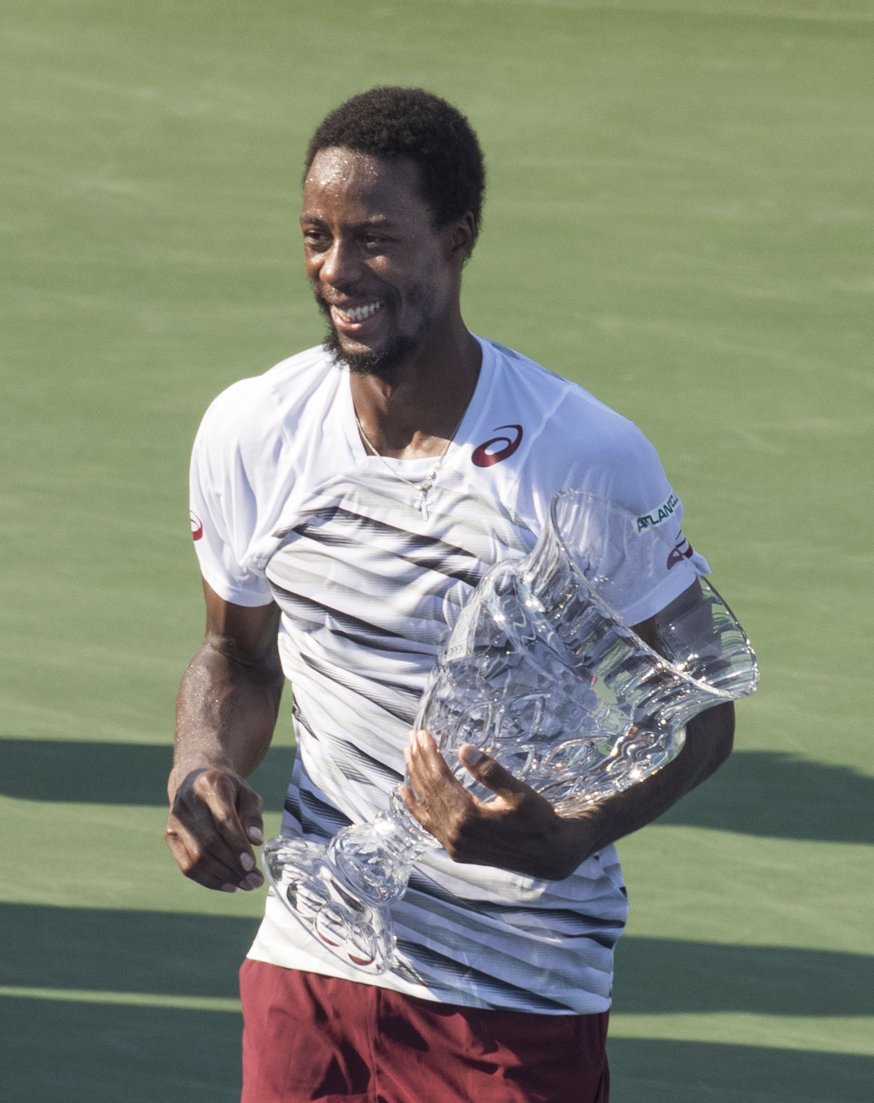 2016 Citi Open Finals 7/24/16